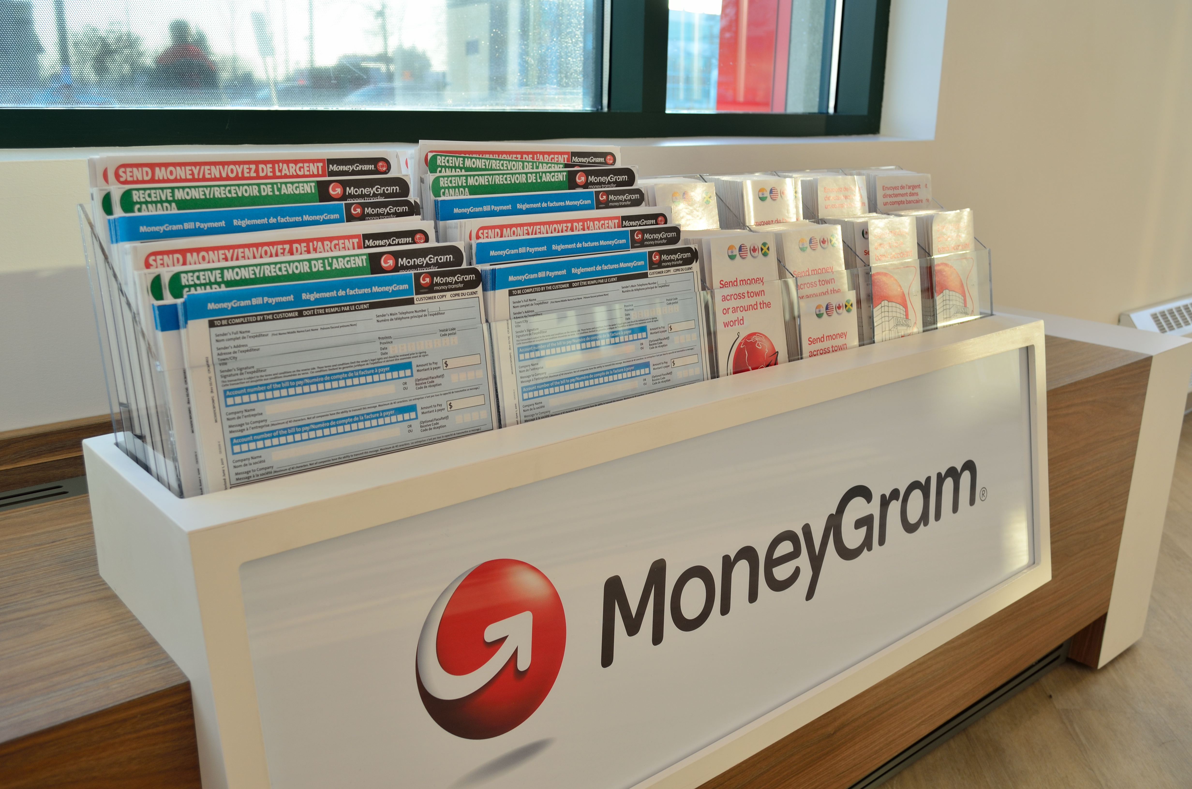 MoneyGram - Drive-thru Parcel Centre at 8889 Yonge Street, Richmond Hill.